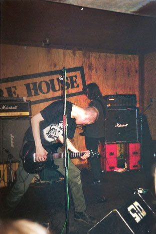 Edit of this photo. The licensing is copied from there "Godflesh performing live at The Wherehouse in Derby, 25 March 1992. User:CelestialWeevil found me via Home of Metal, contacted me, and guided me through this process."